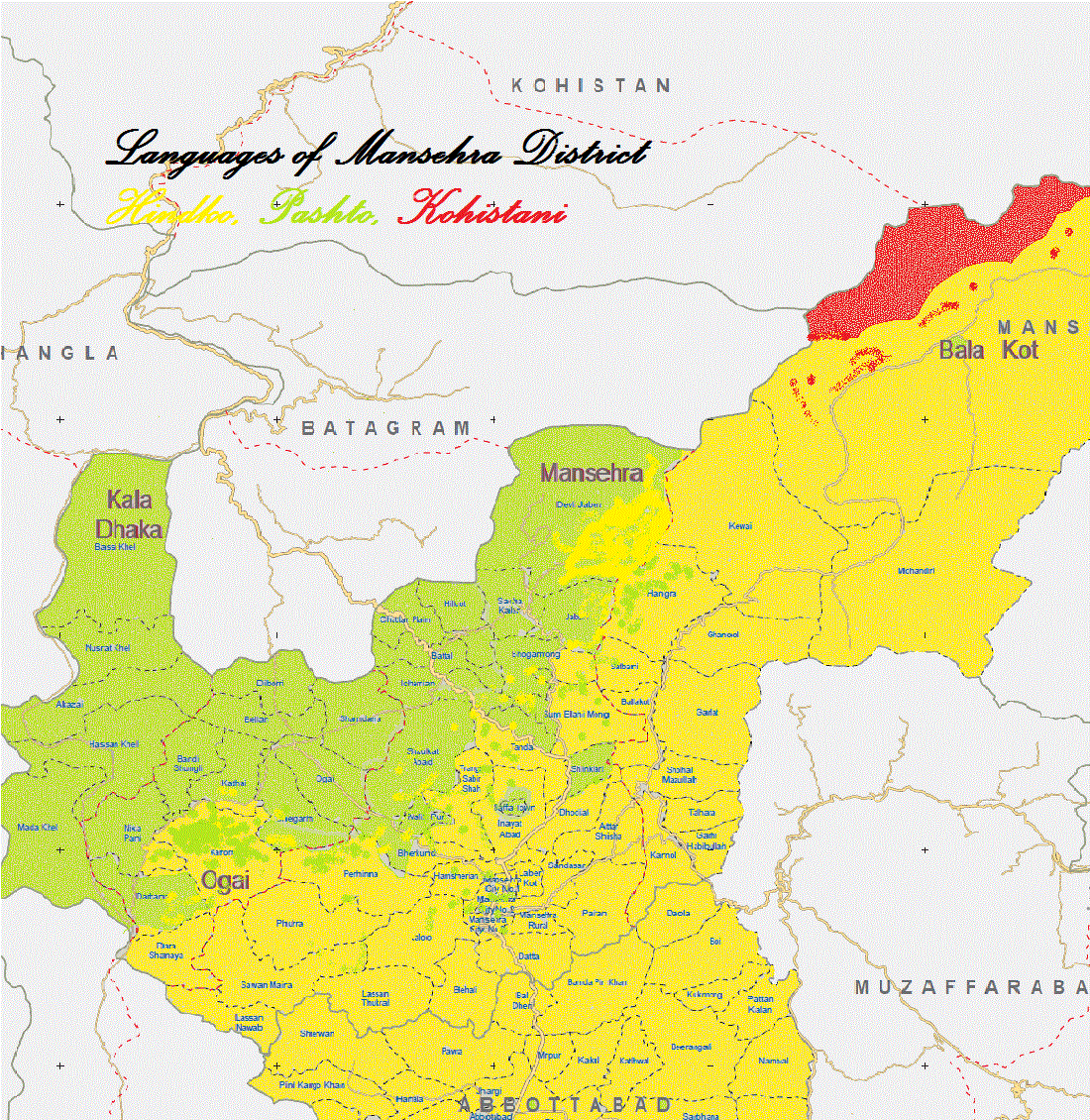 Languages of Mansehra